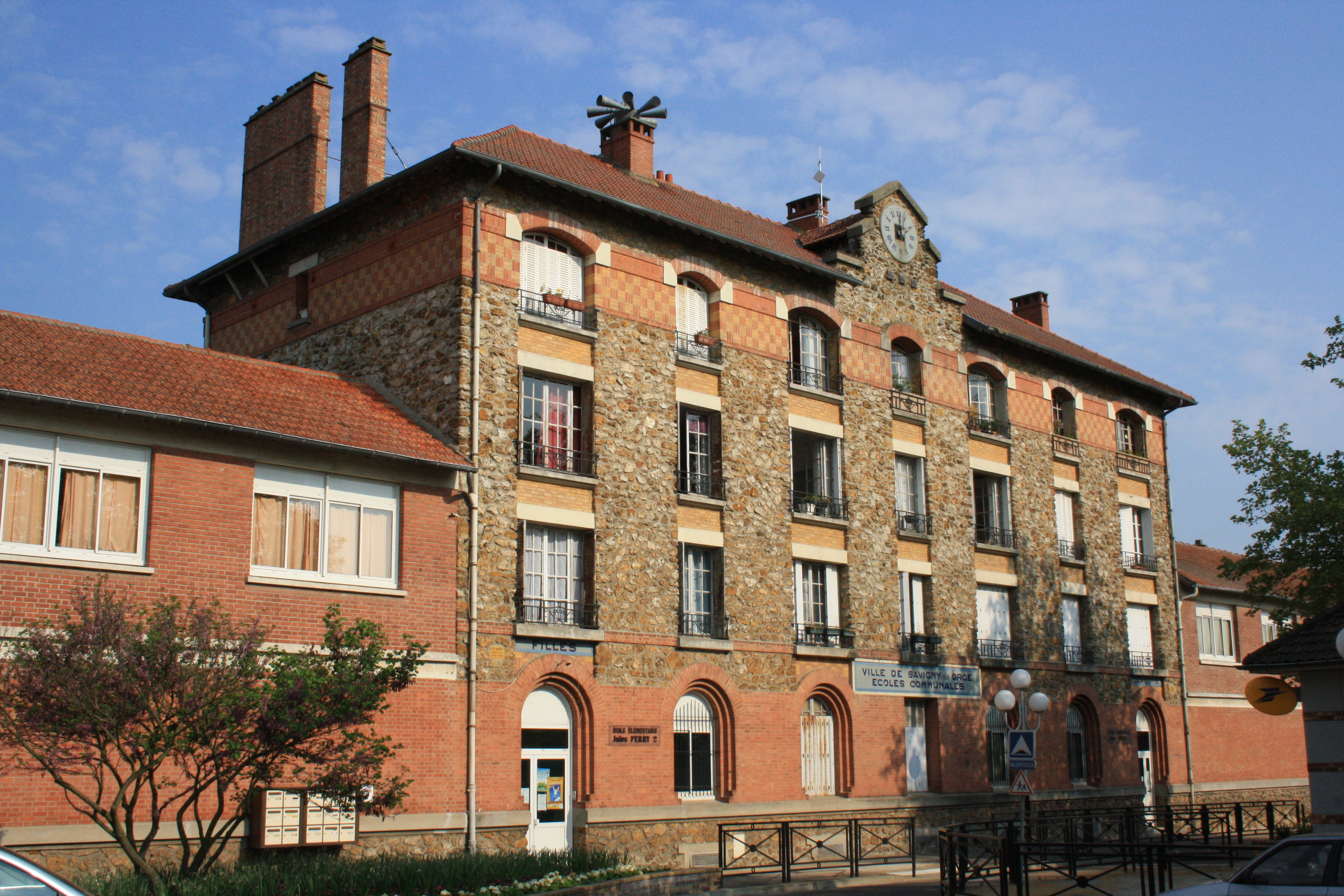 Savigny-sur-Orge in France